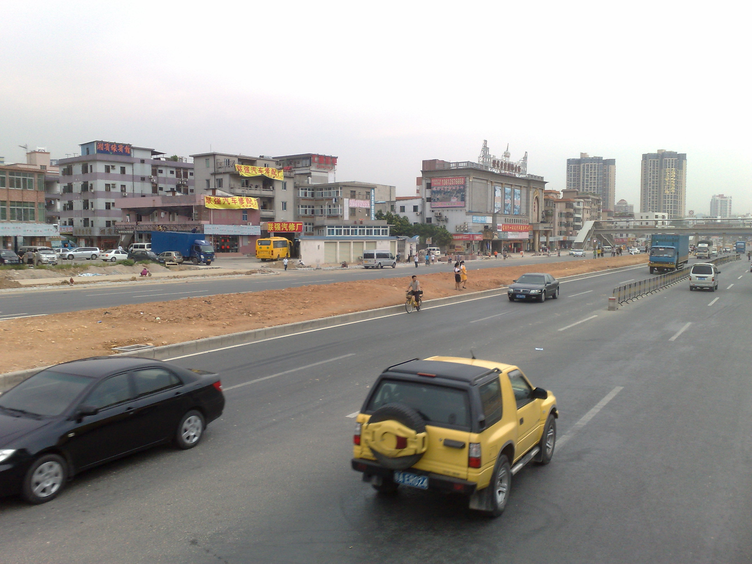 A main street of Henggang, Shenzhen